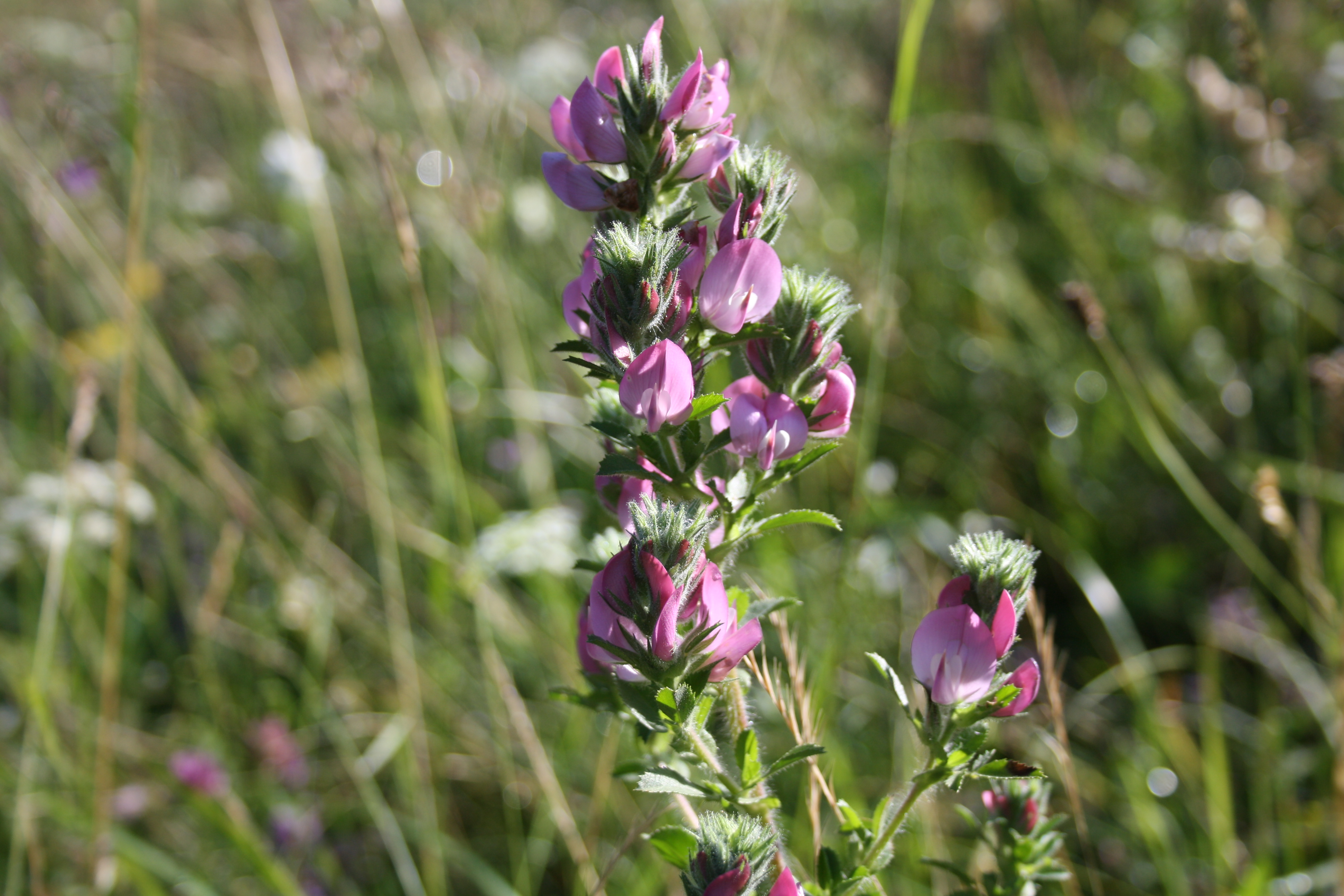 Ononis arvensis in Carpathian Biosphere Reserve